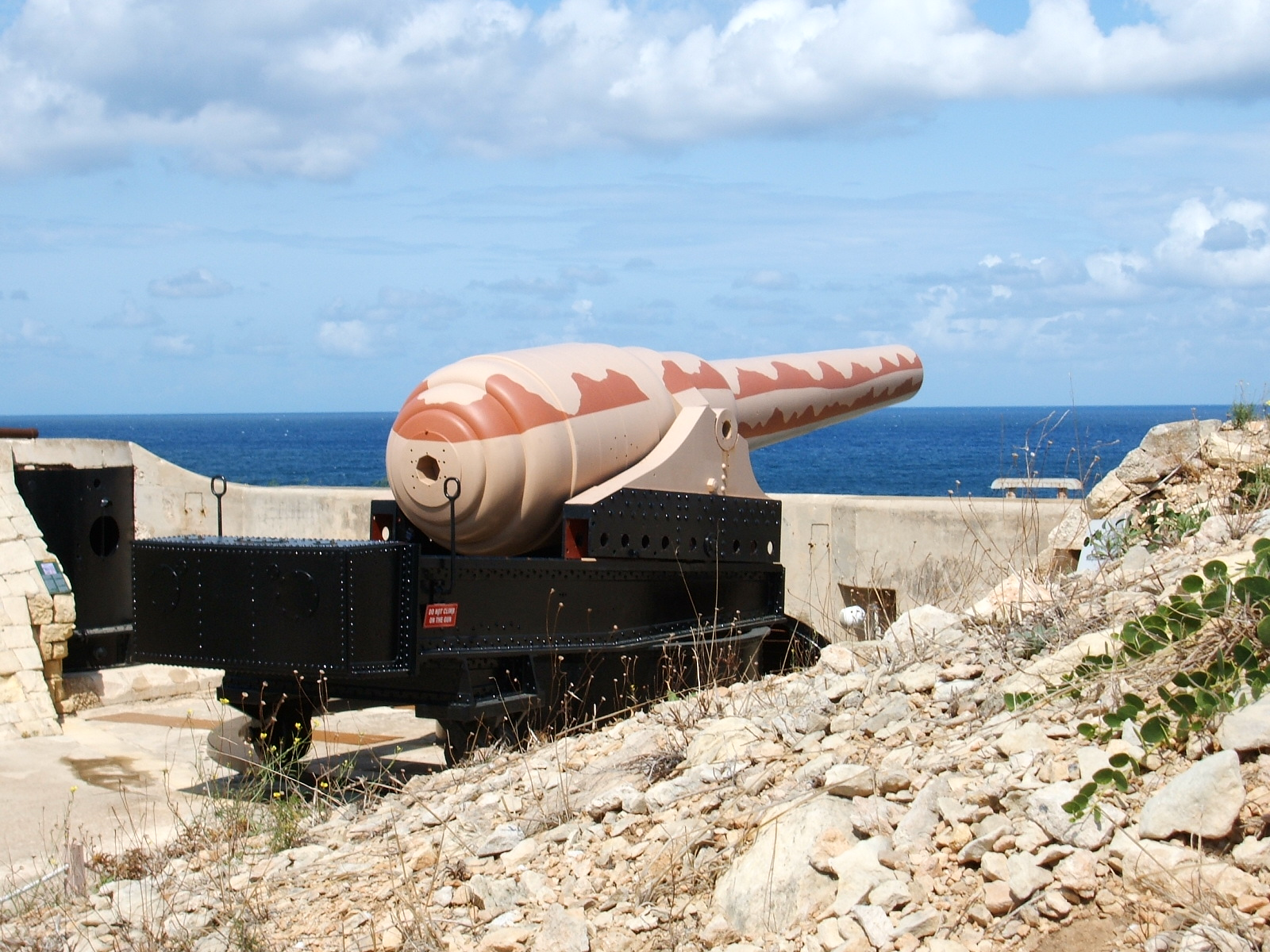 Armstrong-Cannon on Malta